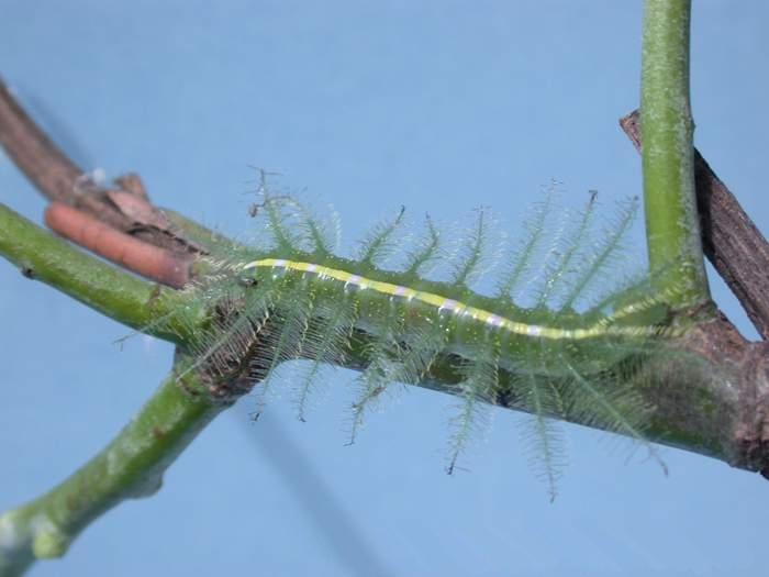 Euthalia aconthea caterpillar